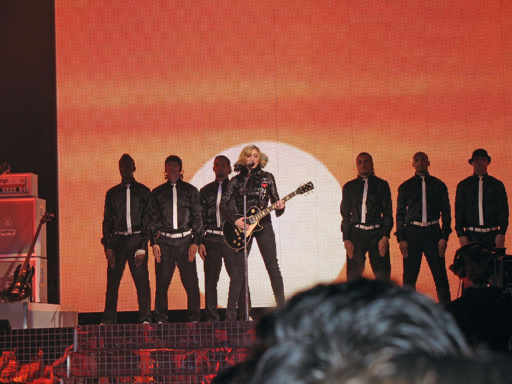 Ray of Light at Confessions Tour